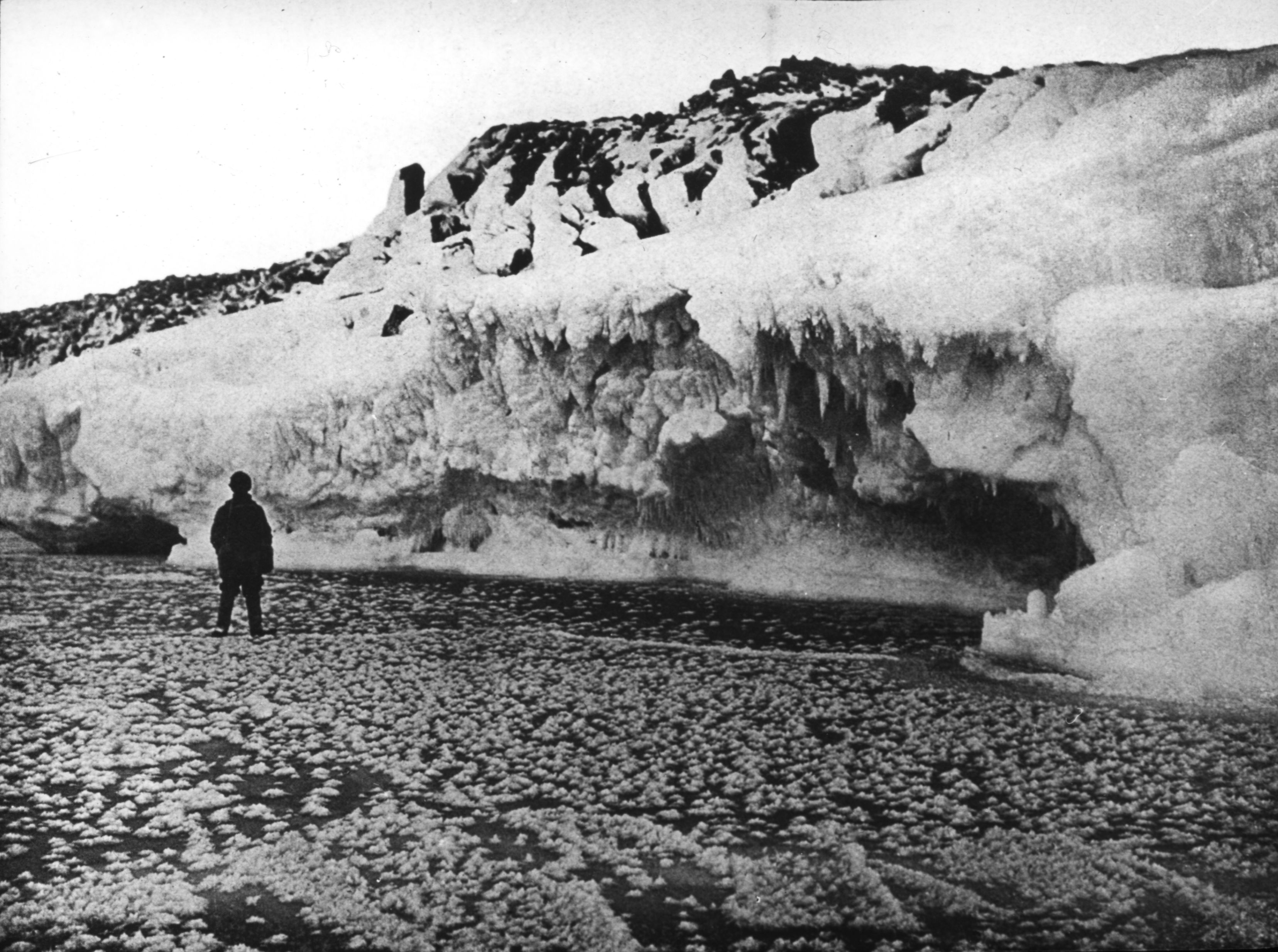 Photographs of the Nimrod Expedition (1907-09) to the Antarctic, led by Ernest Sheckleton